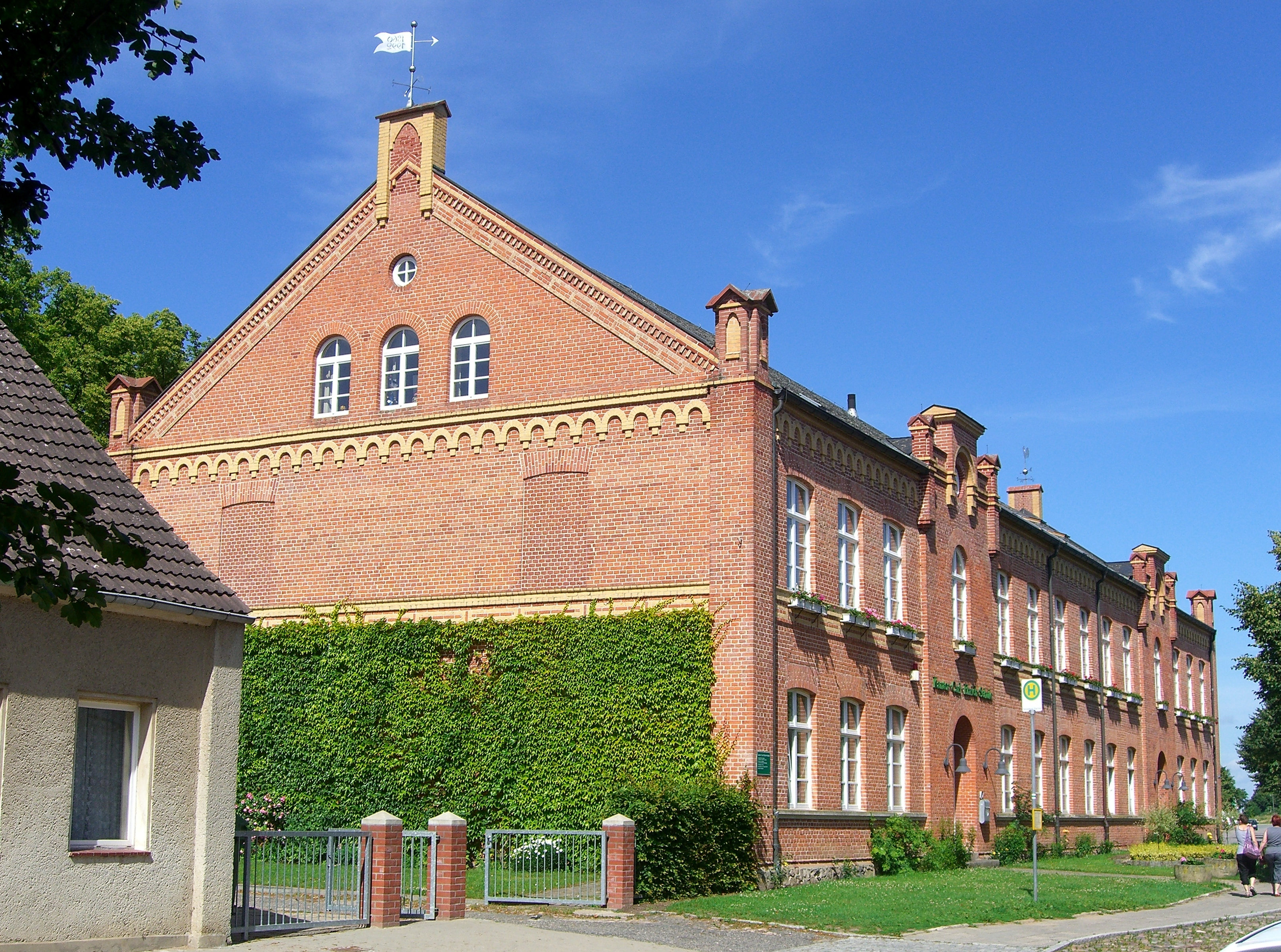 Plau am See, elementary-school, built in 1860